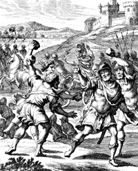 Woodcut of the story in 2 Chronicles 10:18